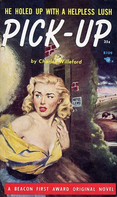 Cover of "Pick-Up" by Charles Willeford. Illustration by Frank Uppwall.